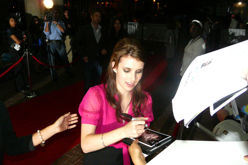 Teen Star Emma Roberts Signs autographs for the fans outside of Ryerson University Theater before the TIFF 08 Premiere of Lymelife.